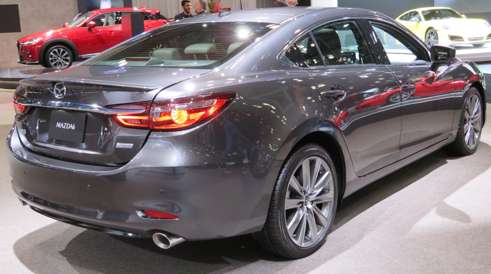 In New York International Auto Show, at Manhattan, New York, USA